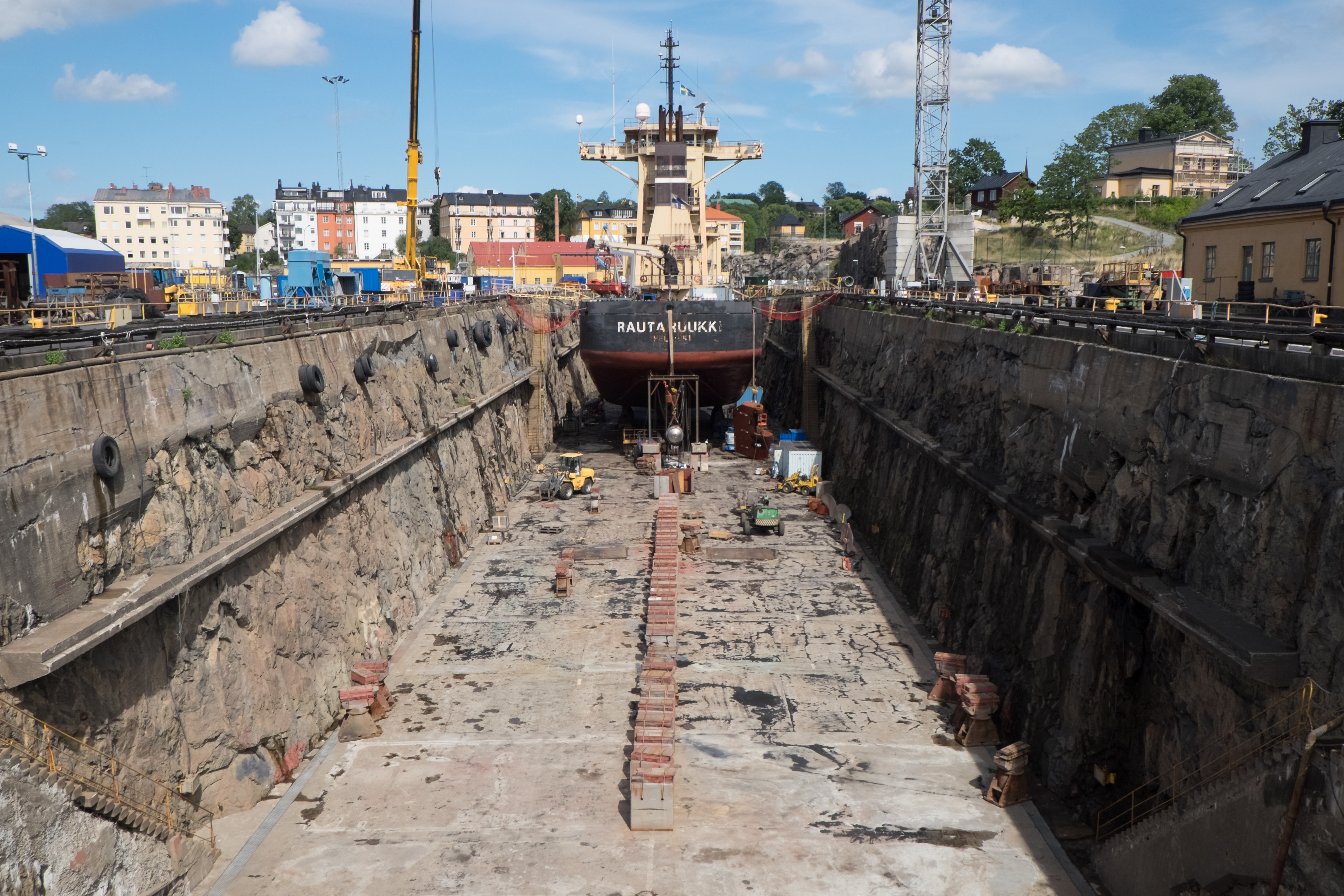 Beckholmen G5 dry dock